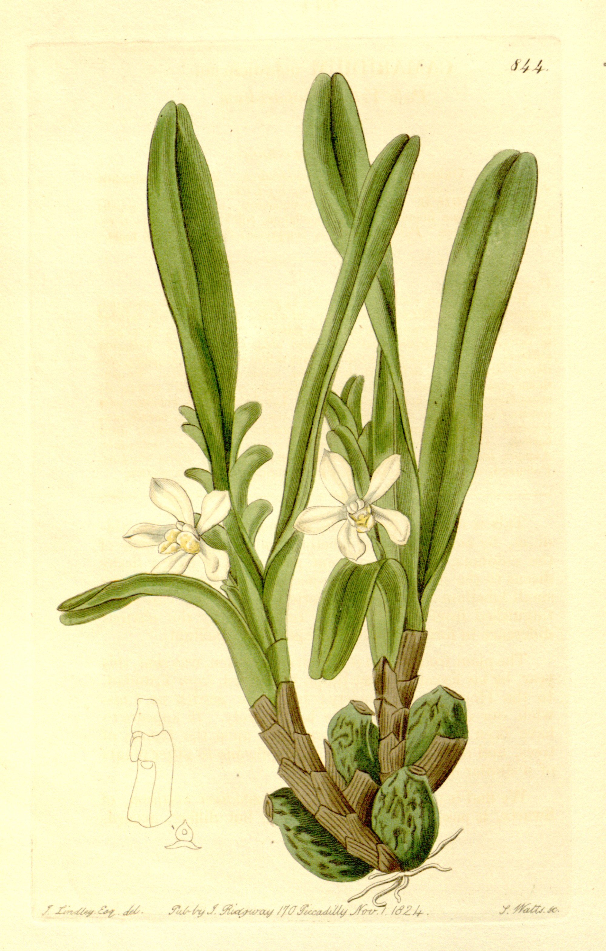 Illustration of Maxillaria lutescens (as syn. Camaridium lutescens)